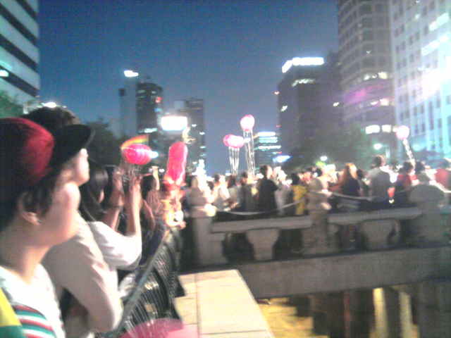 South Korean film director, who is gay, Kim Jho Kwang-soo's public wedding.